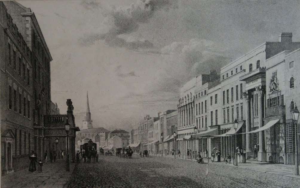 Drawn on stone by Henry Harris and printed by C. Hullmandel